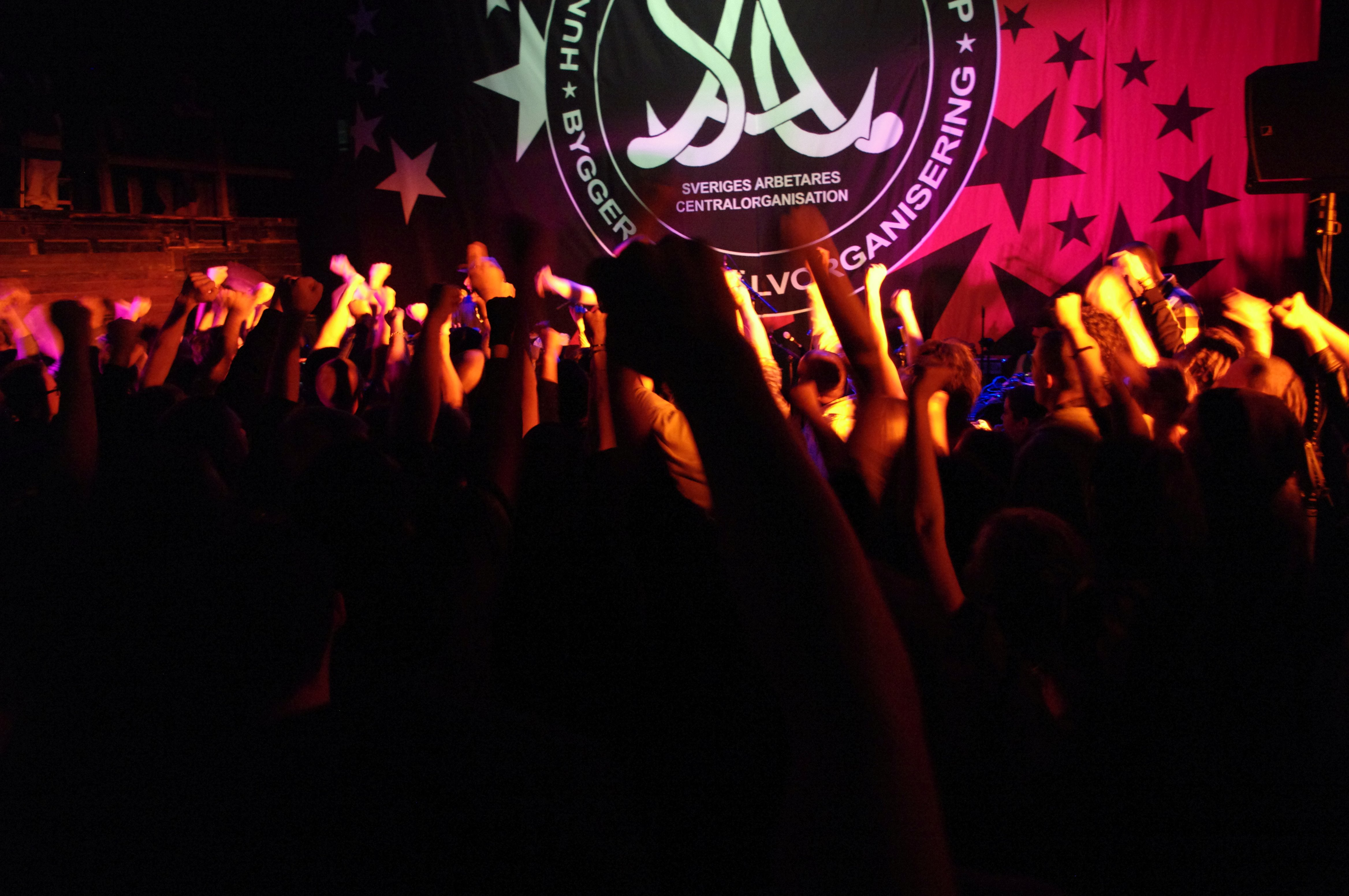 Performance by the Uppsala hip-hop band Labyrint at the celebration of the 100 years of revolutionary syndicalism since the founding of the SAC, Orionteatern, Stockholm, 2010